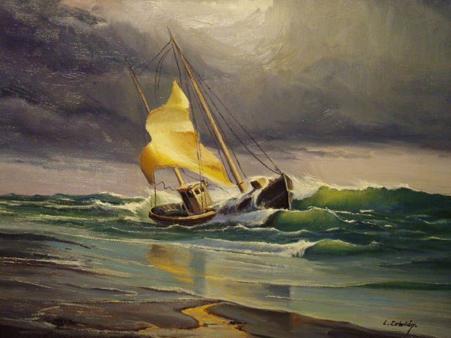 Oil Painting by Luis Cebrián